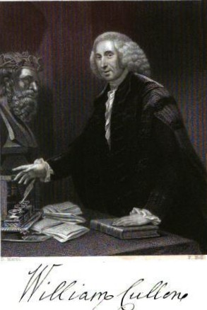 Black and white print of a William Cullen portrait